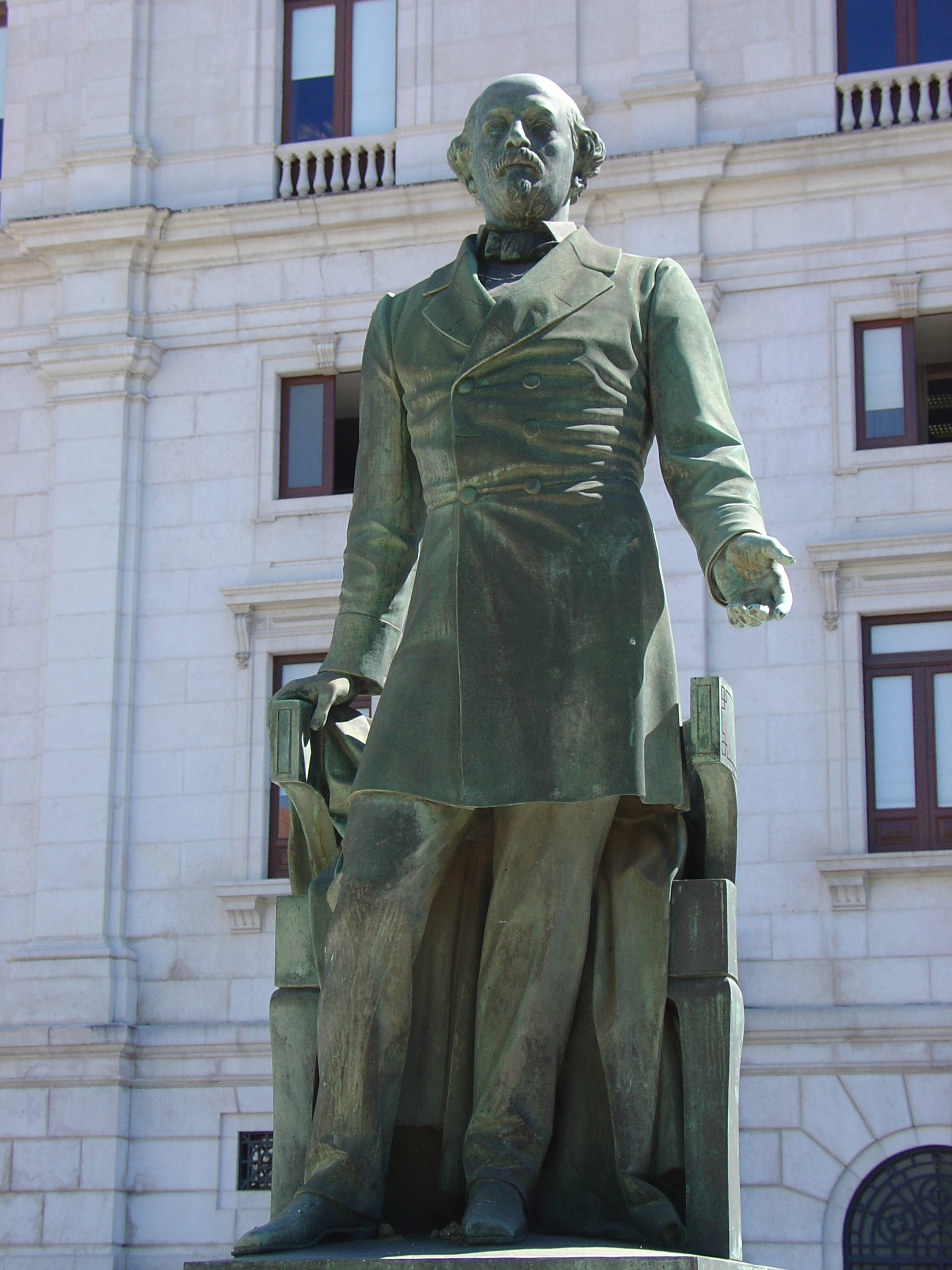 Statue of José Estêvão Coelho de Magalhães in front of São Bento Palace (Assembly of the Republic), Lisbon